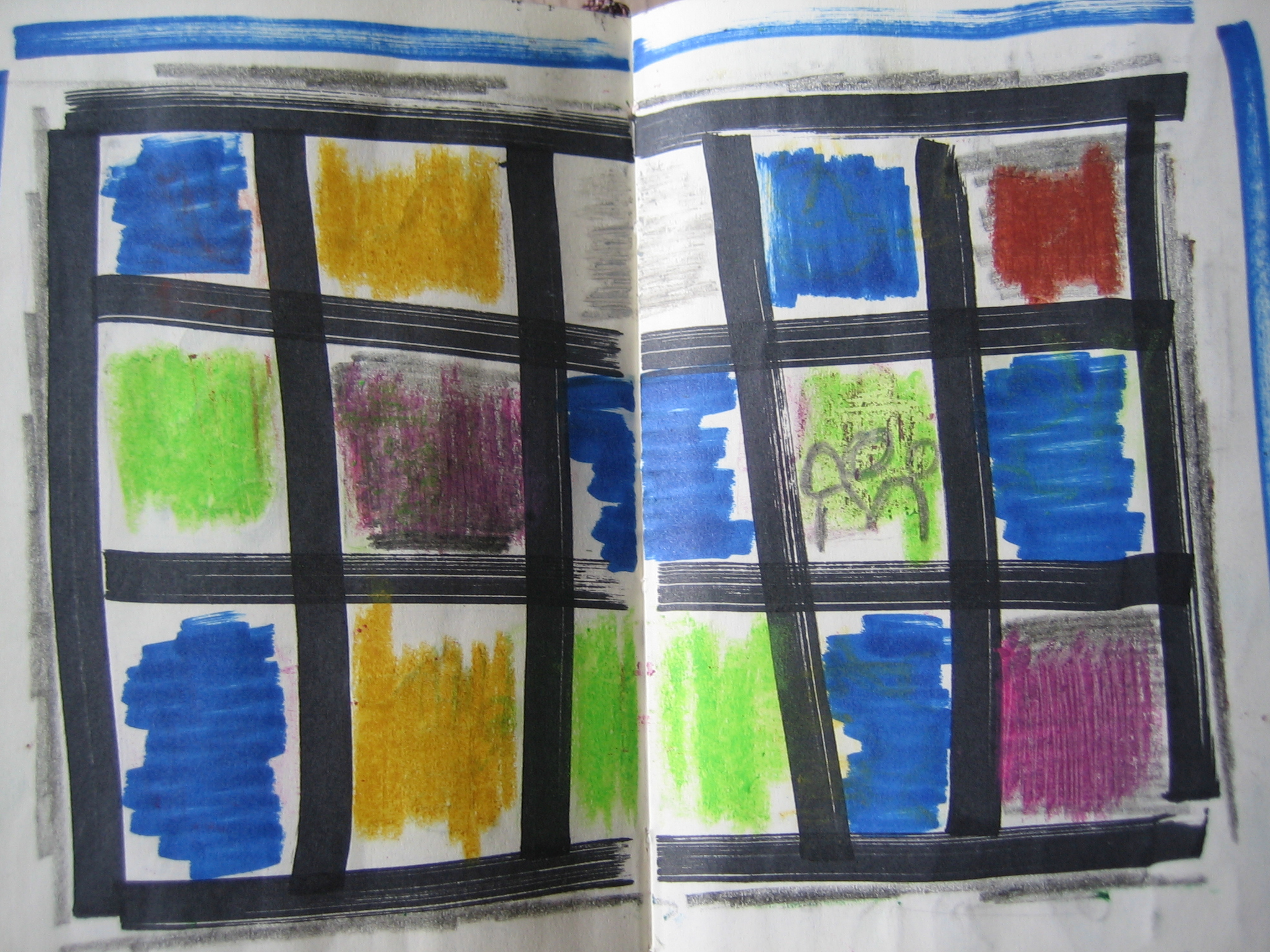 An artwork for Wikipedia, created by Abdoulaye Armin Kane.